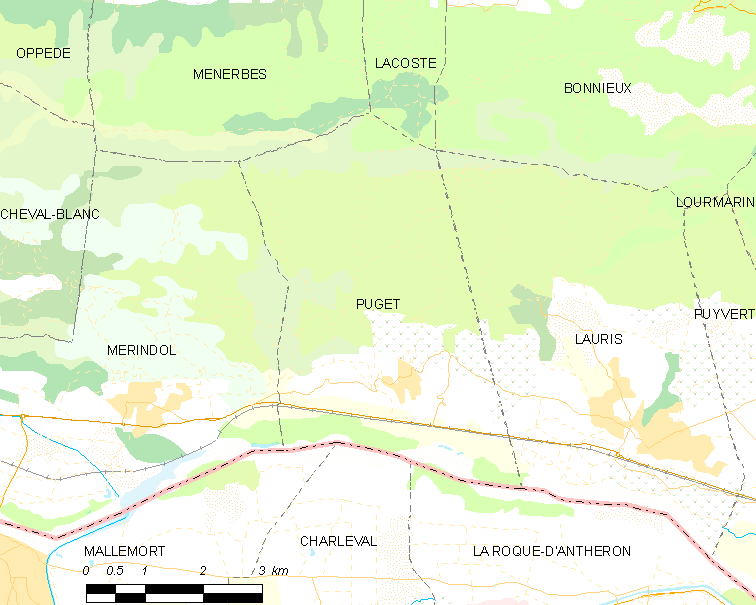 Map of French municipality Puget